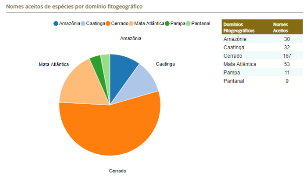 Figura 2: Presença da família Lythraceae em domínios fitogeográficos, sendo eles: Amazônia, Caatinga, Cerrado, Mata Atlântica, Pampa, Pantanal.